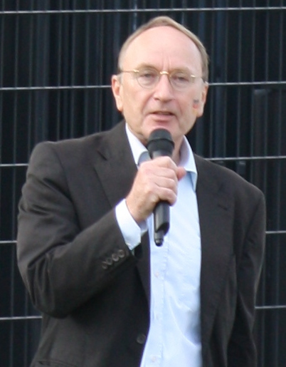 Joachim Rücker, German Ambassador to Sweden at a public viewing event at the German Embassy Stockholm on the occasion of the opening match of the FIFA Women's World Cup 2011